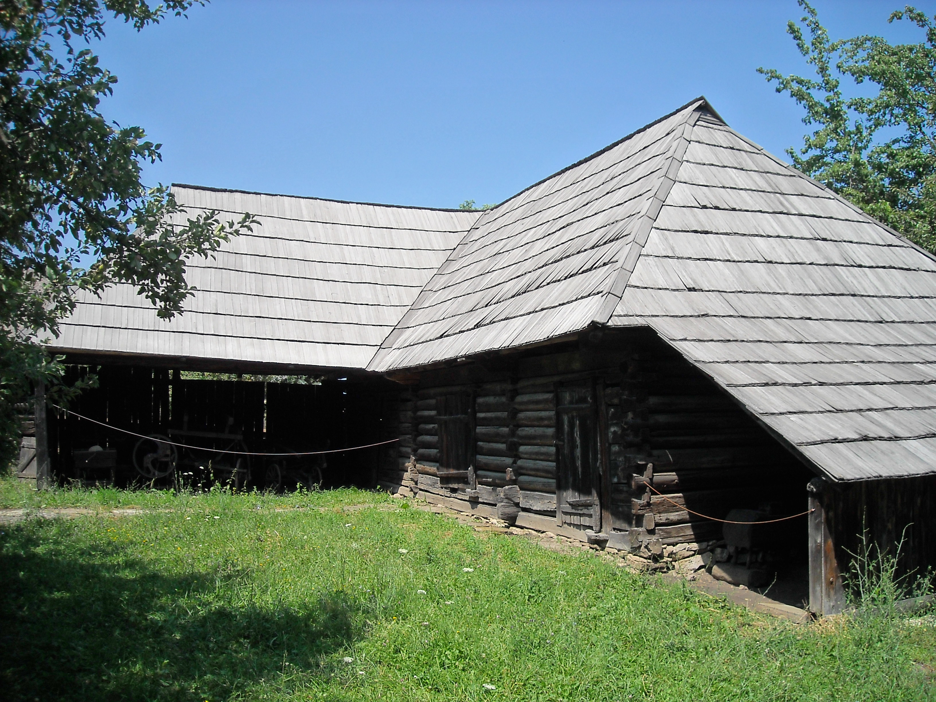 household from Telciu in the Cluj open-air ethnographic museum - annexes